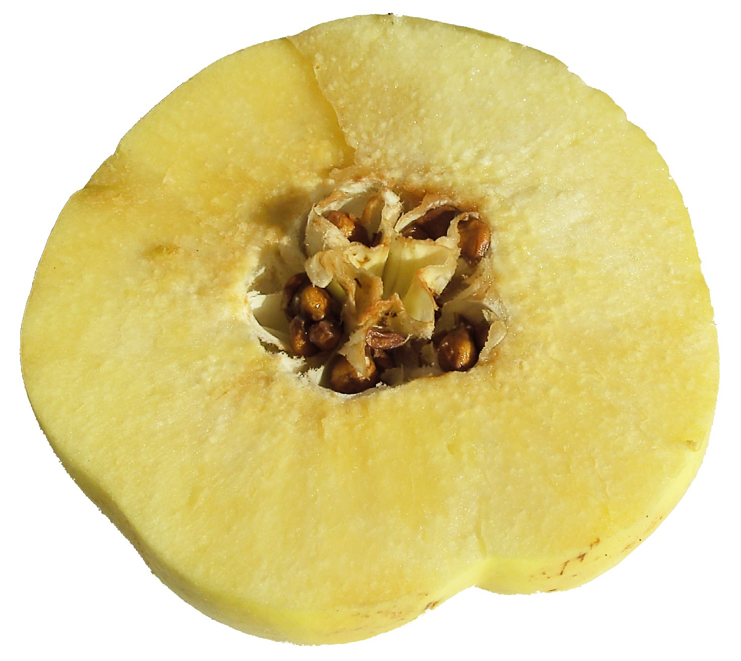 Cydonia oblonga fruit cut